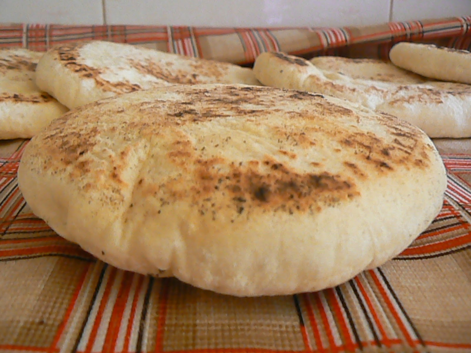 Bazlama